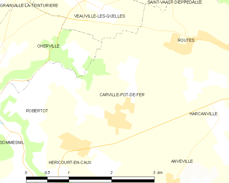 Map of French municipality Carville-Pot-de-Fer